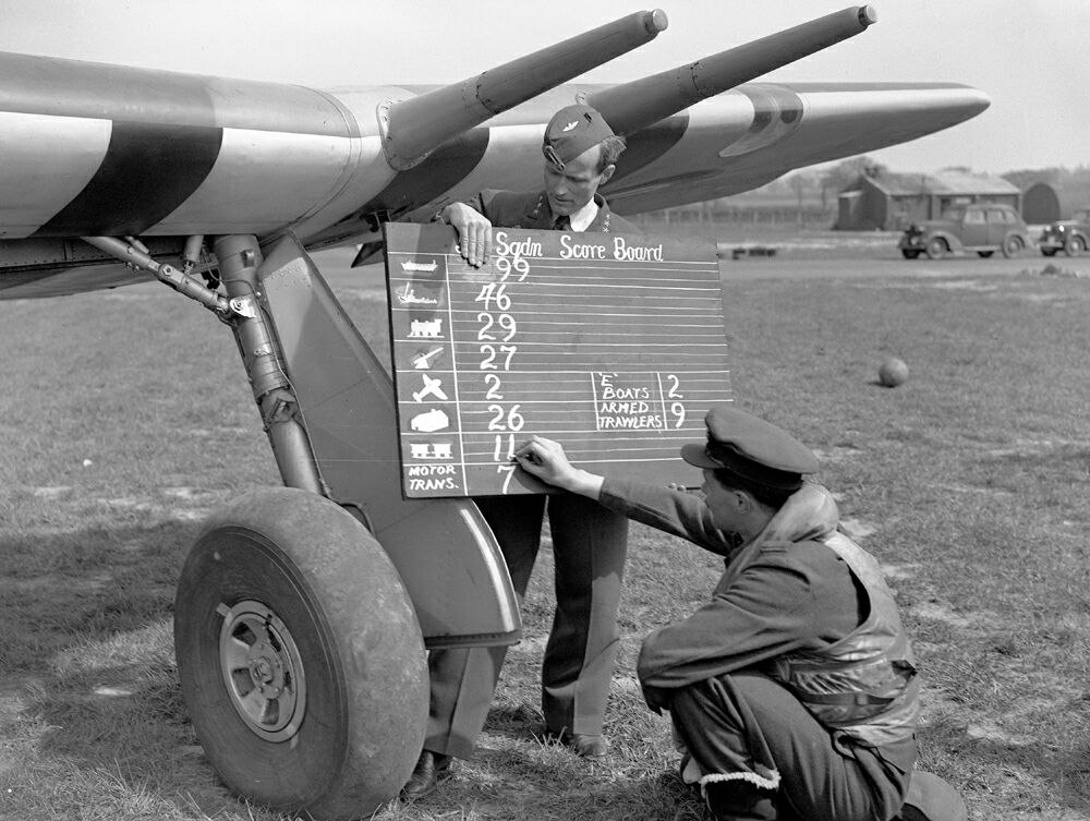 Hawker Typhoon 56 Sqn. Eric Haabjoern showing squadron scoreboard. Note that the aircraft has black & white recognition stripes painted on it.